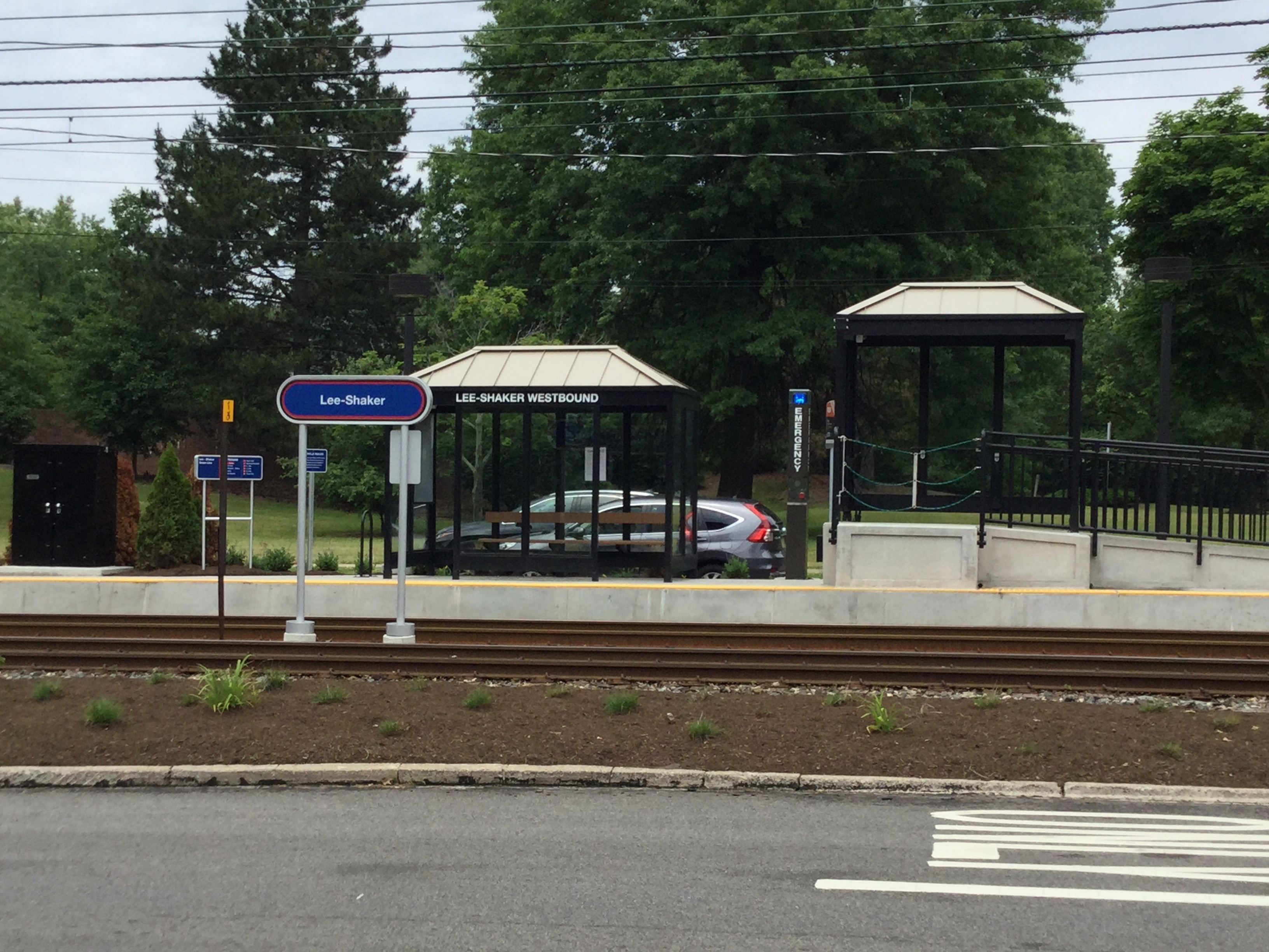 RTA station